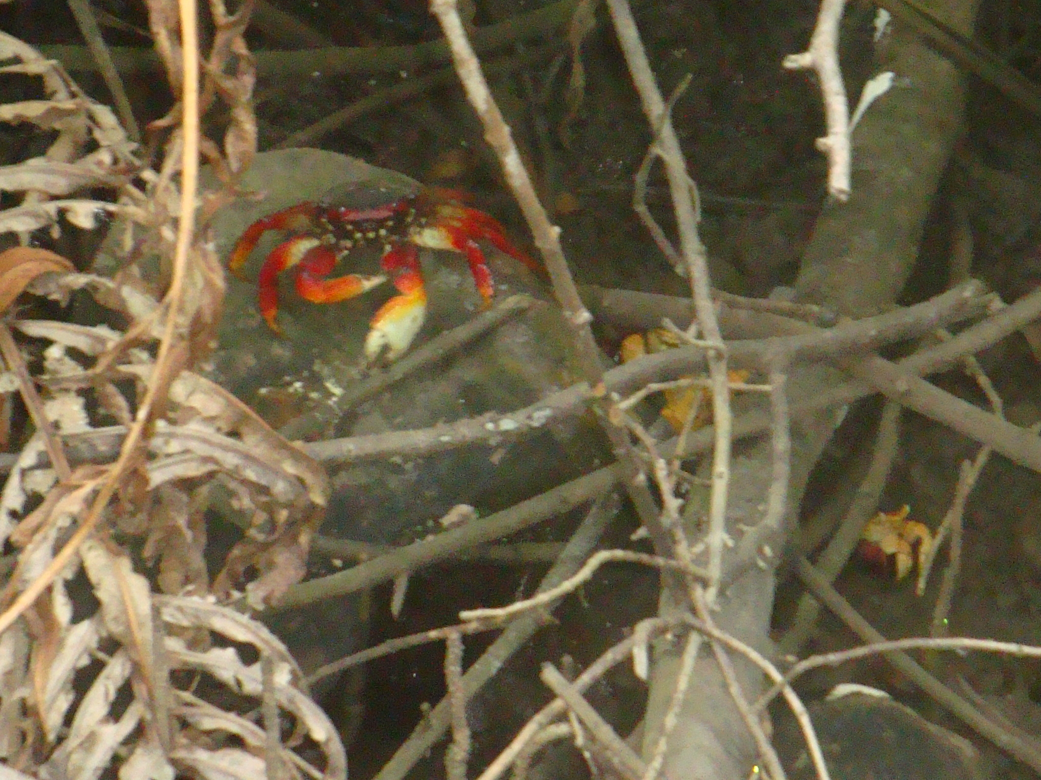 beginning of trail, center of Fortaleza, ultra-easy access